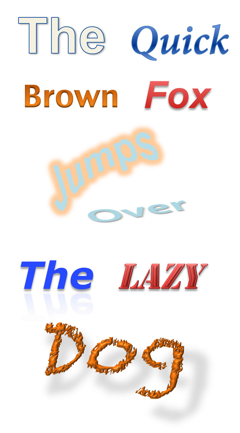 This is some new WordArt. This is the new version of WordArt, and the file other version of the file should not be replaced so it can be compared. This picture uses a mixture of shadows, reflection, glow, bevel, 3D rotation and transformation. WordArt is not copyrighted by Microsoft or anyone and is in the public domain. WordArt shapes and forms are not copyright by Microsoft.